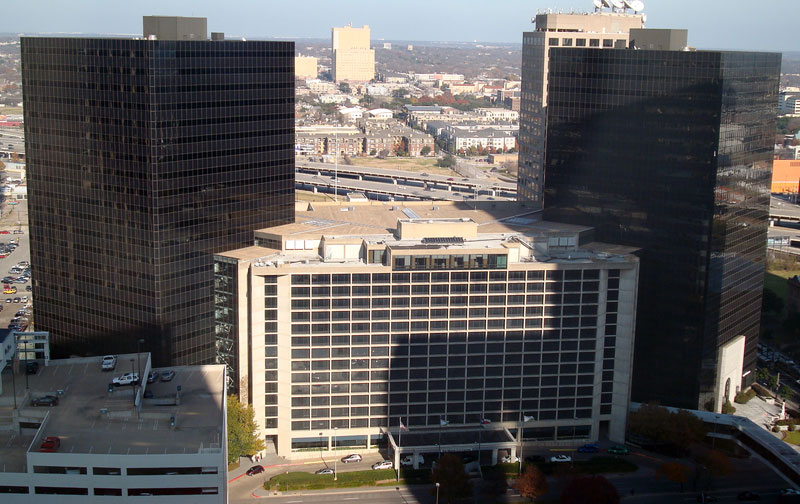 Exterior of Plaza of the Americas in downtown Dallas, Texas